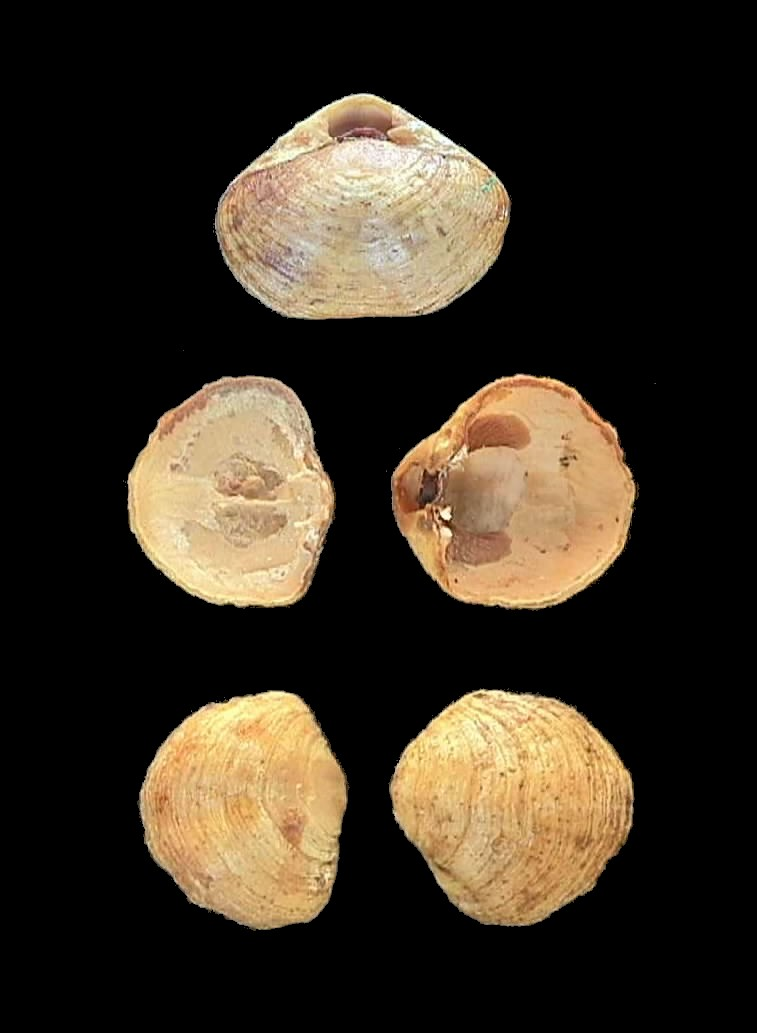 Terebratella sanguinea (Brachiopoda: Terebratulida: Terebratulidae).